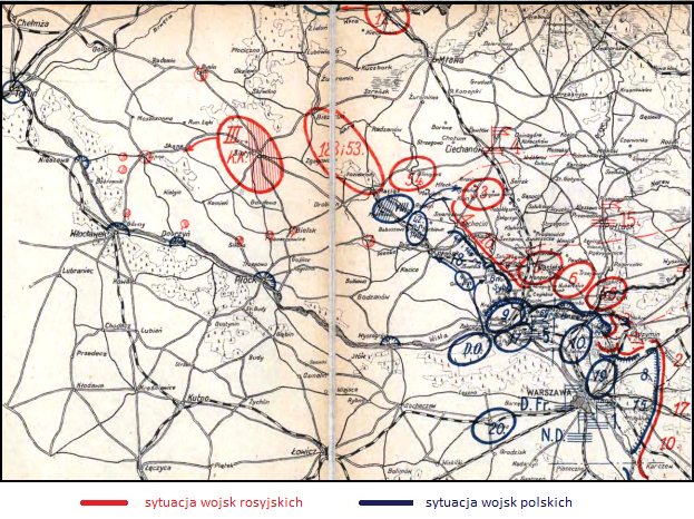 Władysław Sikorski, On the Vistula and Wkra. A Study from the Polish-Russian War of 1920. Sketch No. 4 (fragment): The situation on the Vistula River on August 14, 1920 around 12 o'clock.